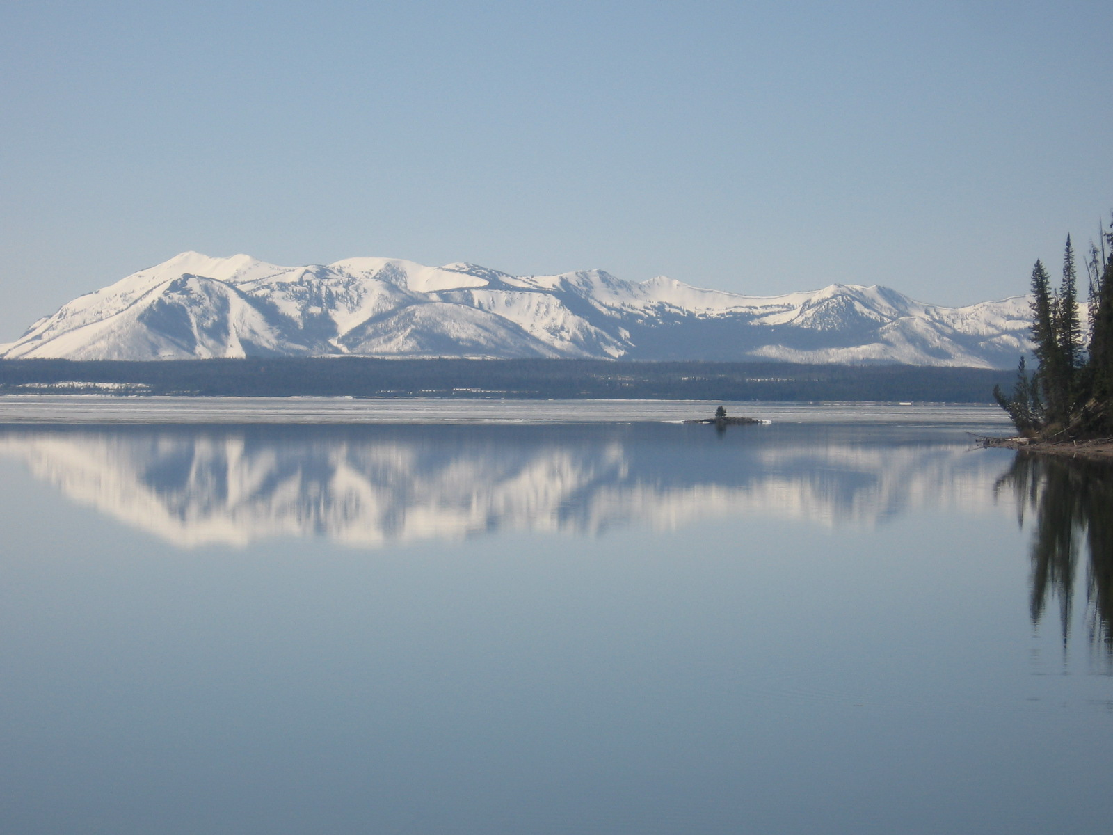 Yellowstone Lake in Spring